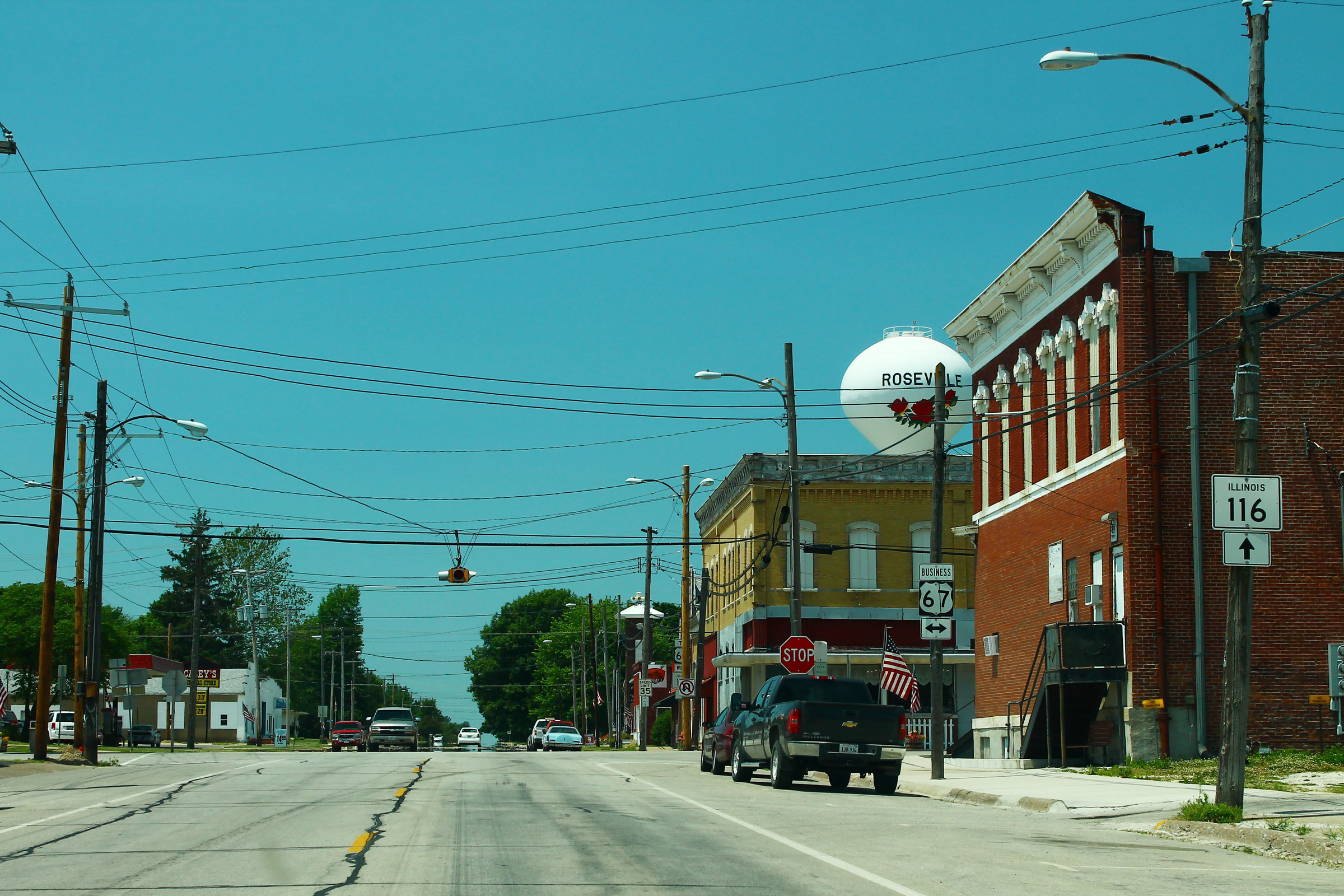 IL116wRoadSign-US67BusSign-Roseville